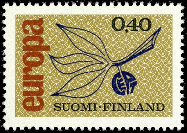 Finnish Europa-Cept postage stamp from 1965